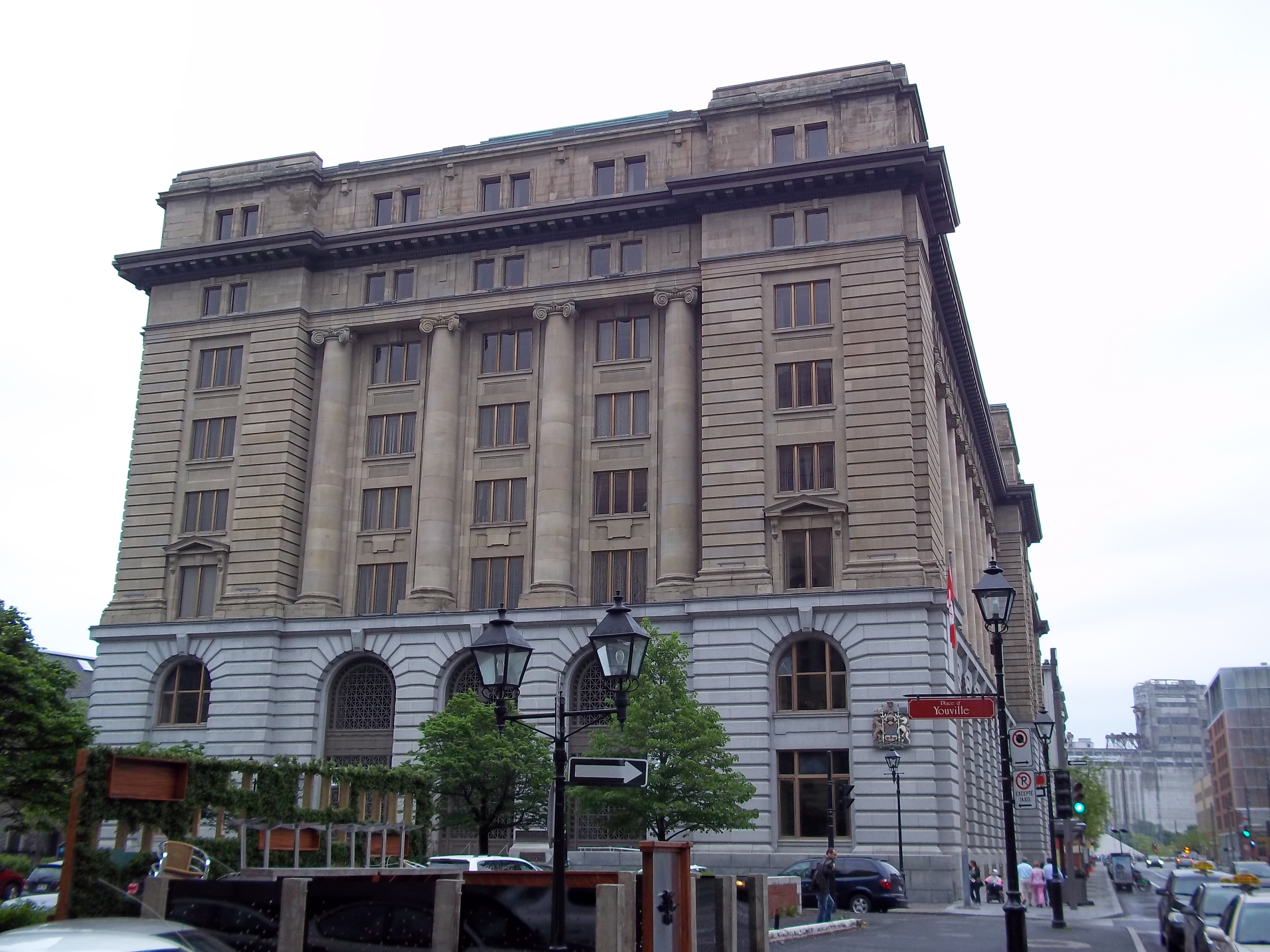 Customs Examining Warehouse, Montreal